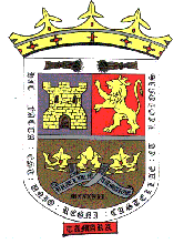 Shield of Támara de Campos